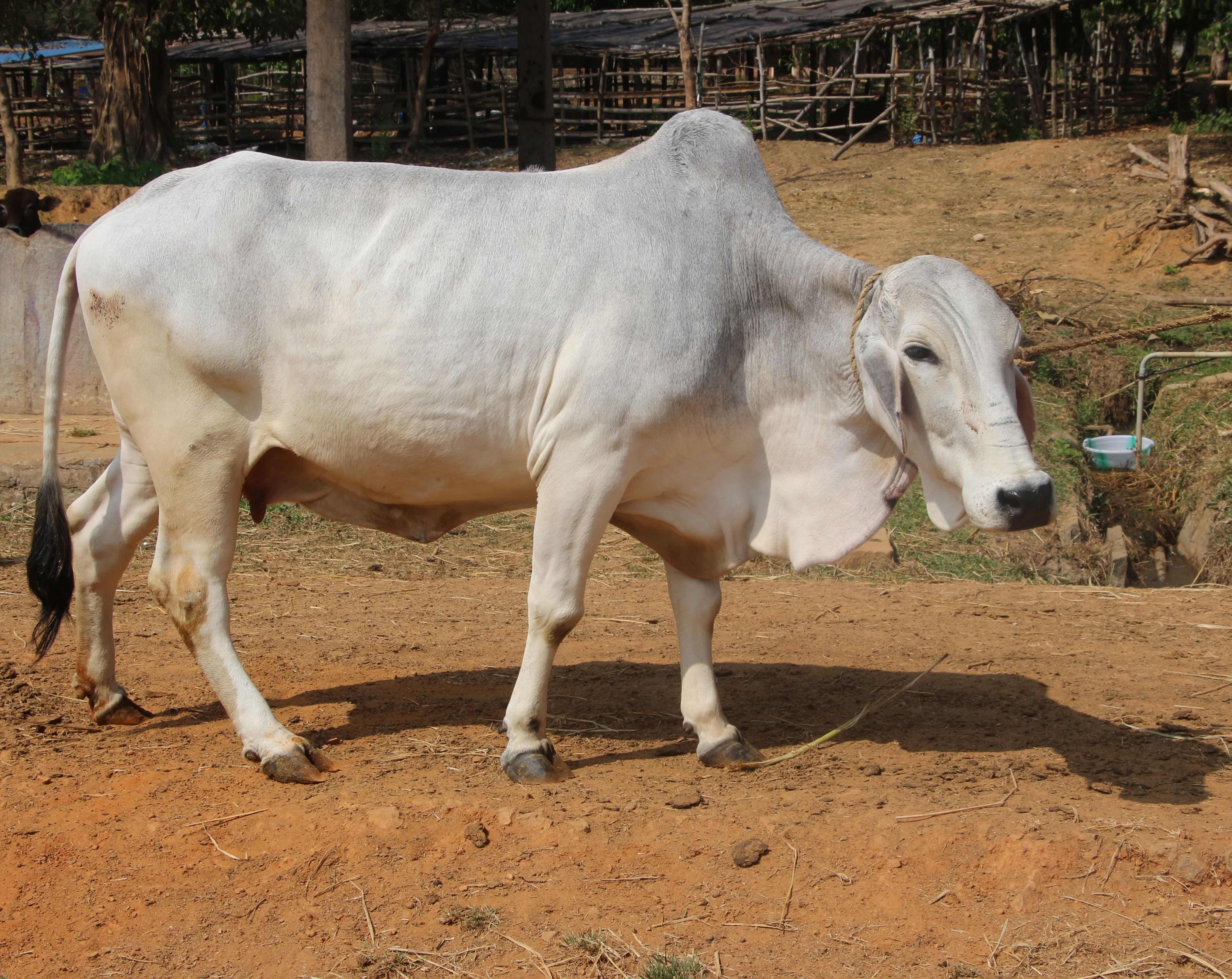 Indian cow breed Tharparkarಕನ್ನಡ: ಭಾರತೀಯ ಗೋತಳಿ ಥಾರ್‌ಪಾರ್ಕರ್